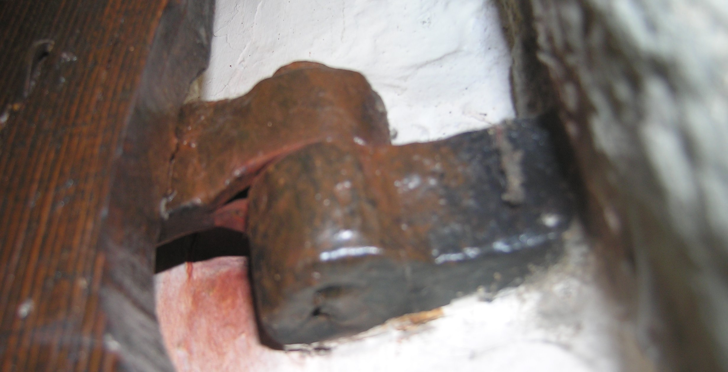 The two part iron hinge